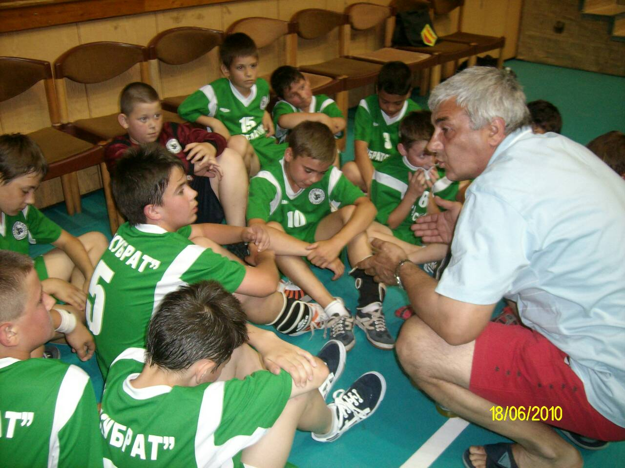 Stefan Kalinov